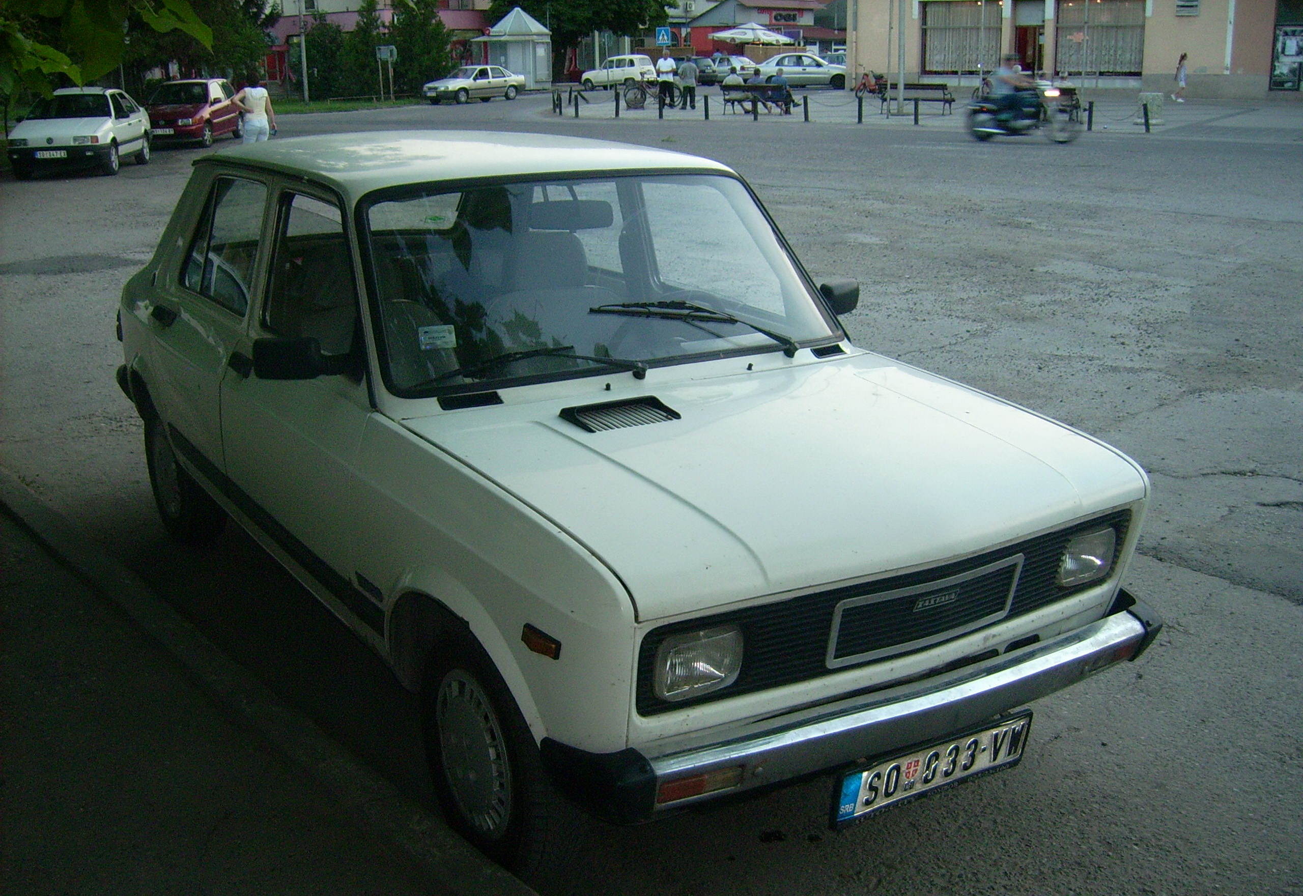 zastava yugo scala 101 1988